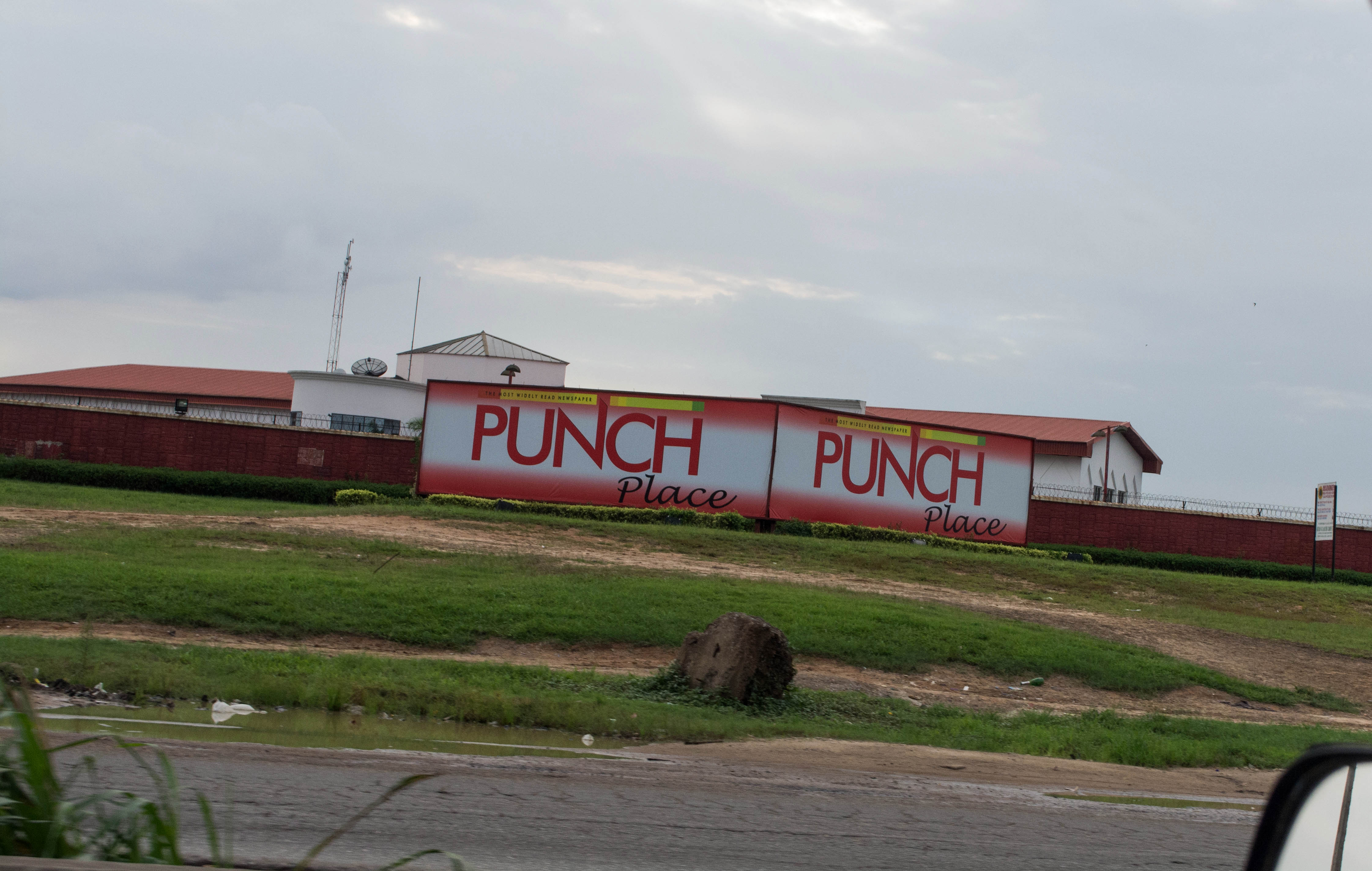 Arepo Bus stop